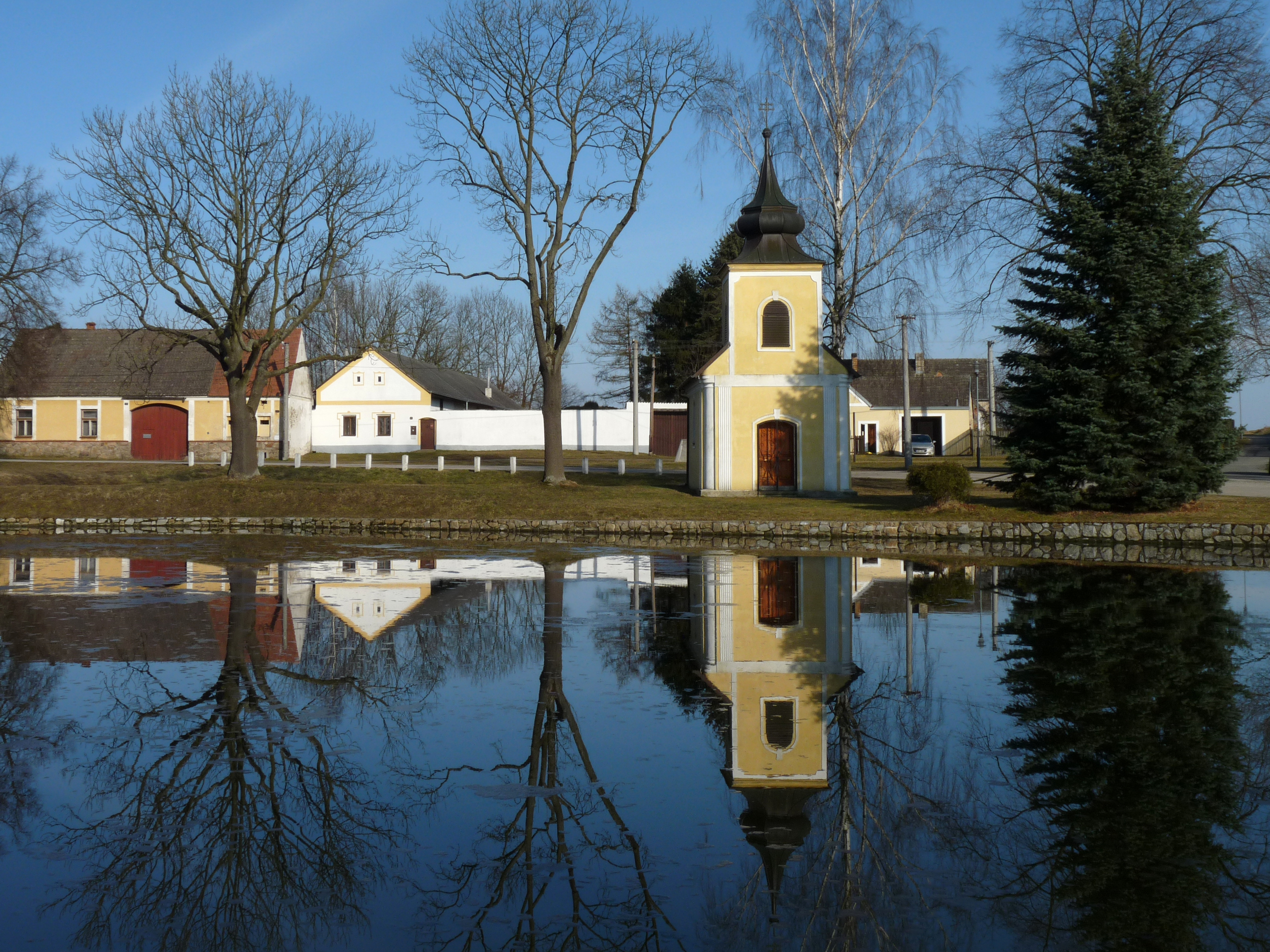 Chapel in the village of Újezdec, Jindřichův Hradec District, South Bohemia, Czech Republic.